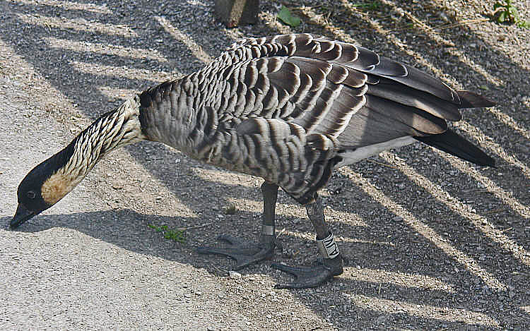 A Nene (also known as Nēnē and Hawaiian Goose) at WWT Slimbridge, Gloucestershire, England.